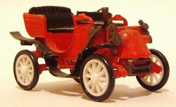 J.M.K. by R.A.M.I. No. 11; Scale model of a French 1899 Gobron-Brillié Double Phaeton. Victoria top on rear seat bench missing.